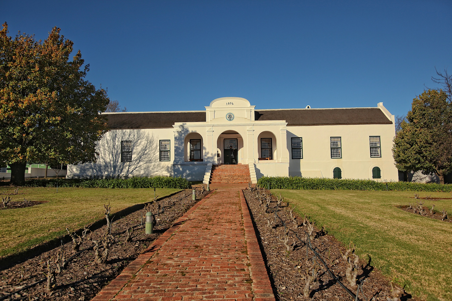 Drostdy, Tulbagh This media shows a South African Protected Site with SAHRA file reference 9/2/094/0001.